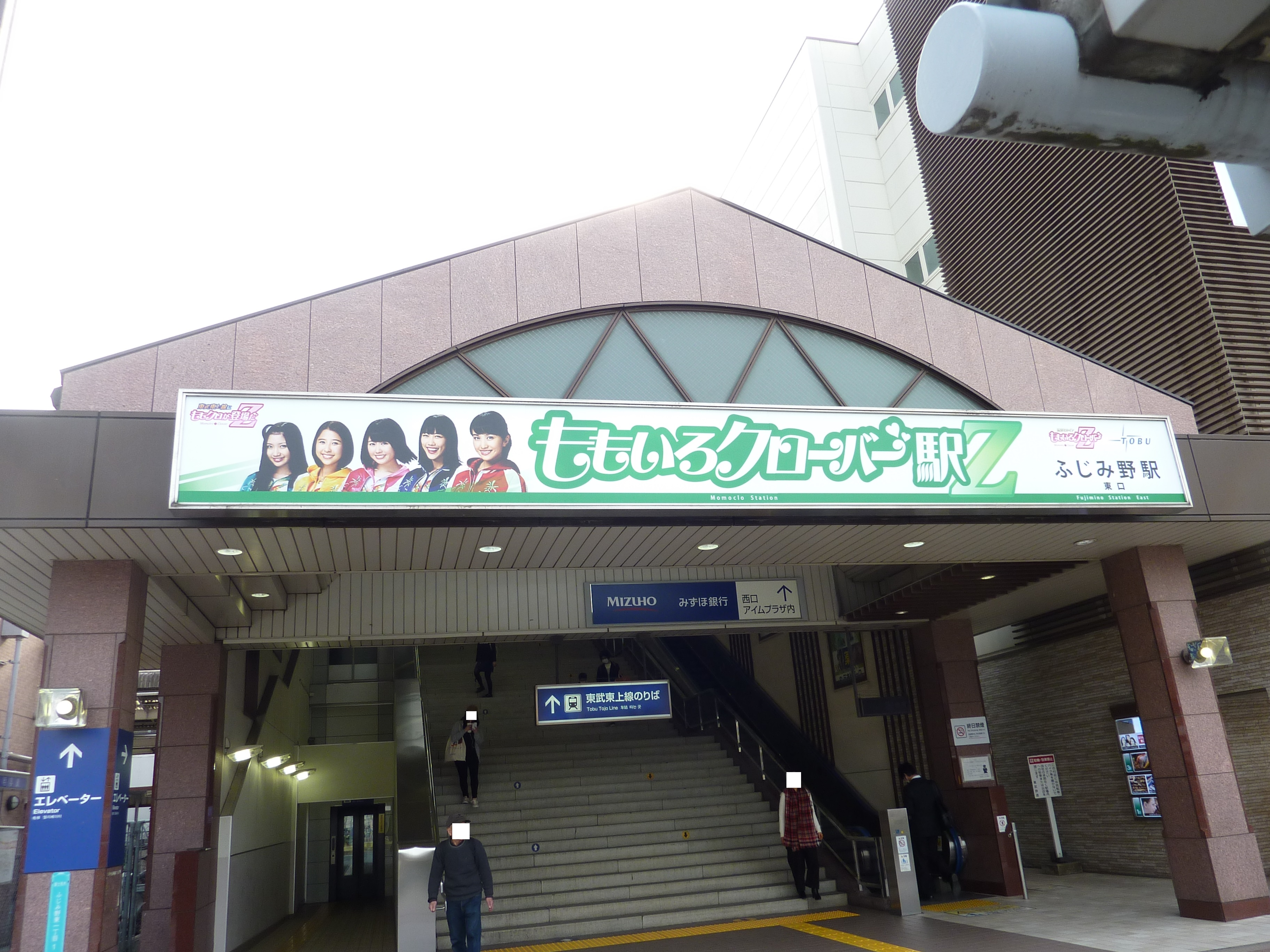 Fujimino Station in Saitama Prefecture temporarily renamed "Momoclo Station" to coincide with a Momoiro Clover Z event